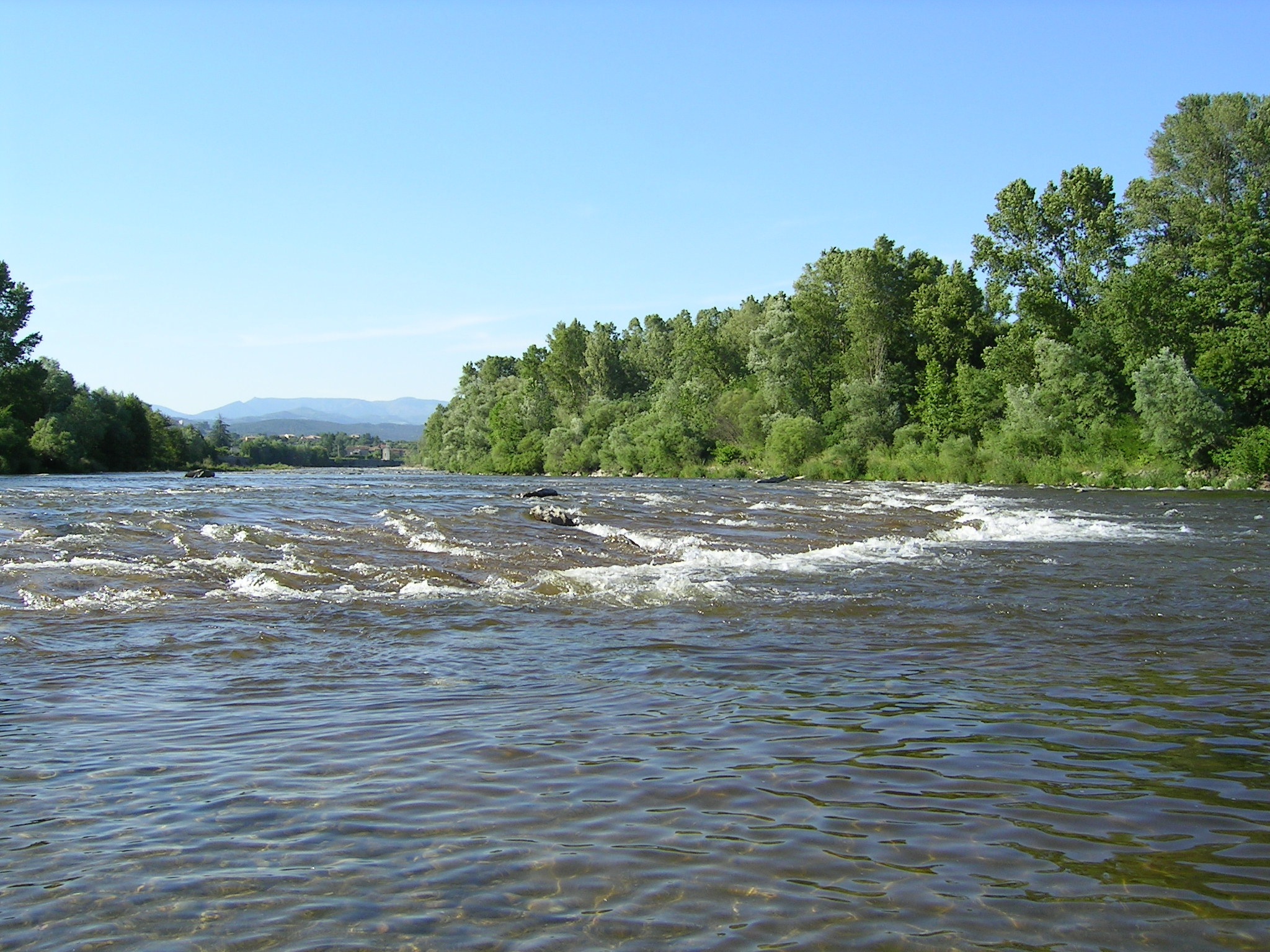 Description: Ardèche River, France. Photo taken near the city of Aubenas. Source: own picture (Thomas Rosenau, User:Pumbaa80) Date: see metadata section below Other versions: opposite view Description: La rivière Ardèche, près d'Aubenas. Source: Image prise par Thomas Rosenau (User:Pumbaa80) Date: voir ci-dessous (section «Metadata») Autres versions: vue opposée